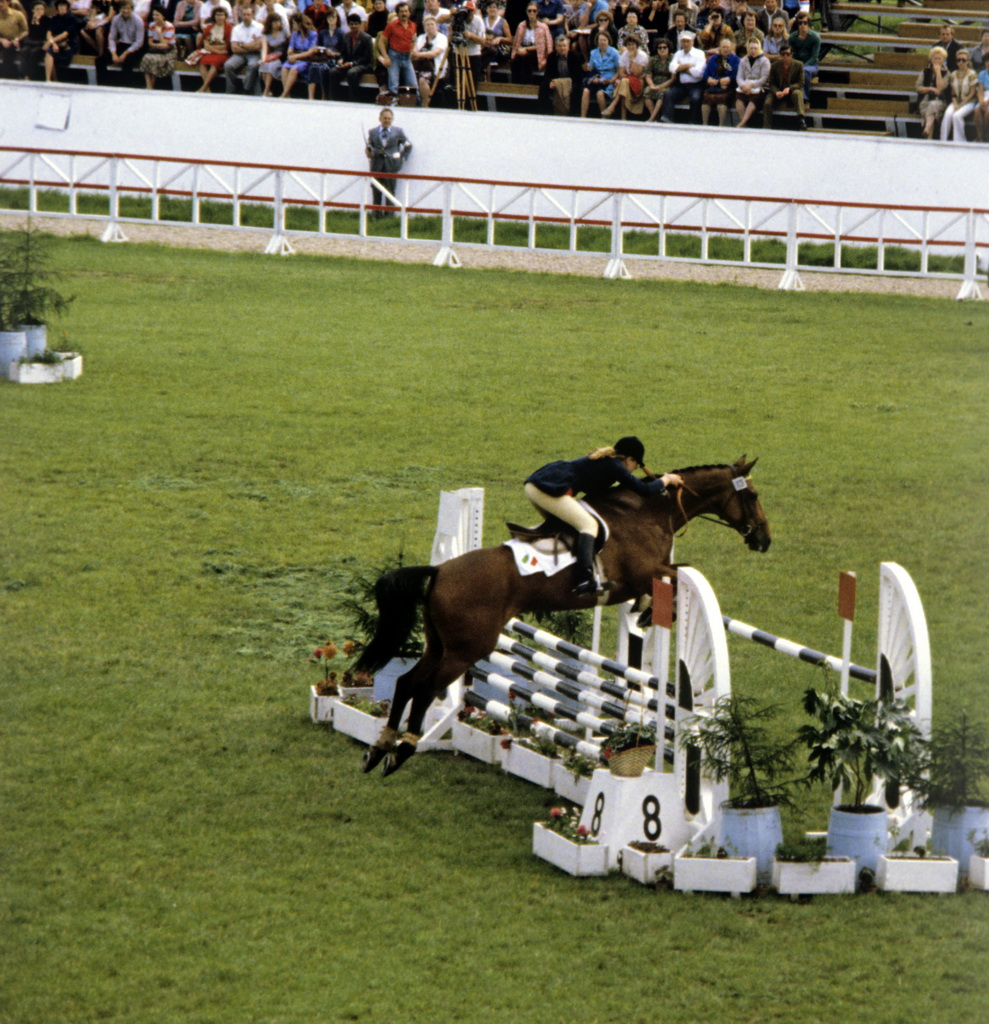 “Rider Anna Casagrande”. Italian rider Anna Casagrande jumping barrier. Equestrian triathlon. Trade Unions Equestrian Center in the Bitsa forest park. XXII Summer Olympic Games.